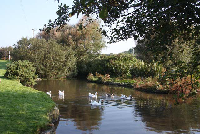 Village Pond, Polgigga. Next to the bus stop, buses run to Lands End and Penzance.